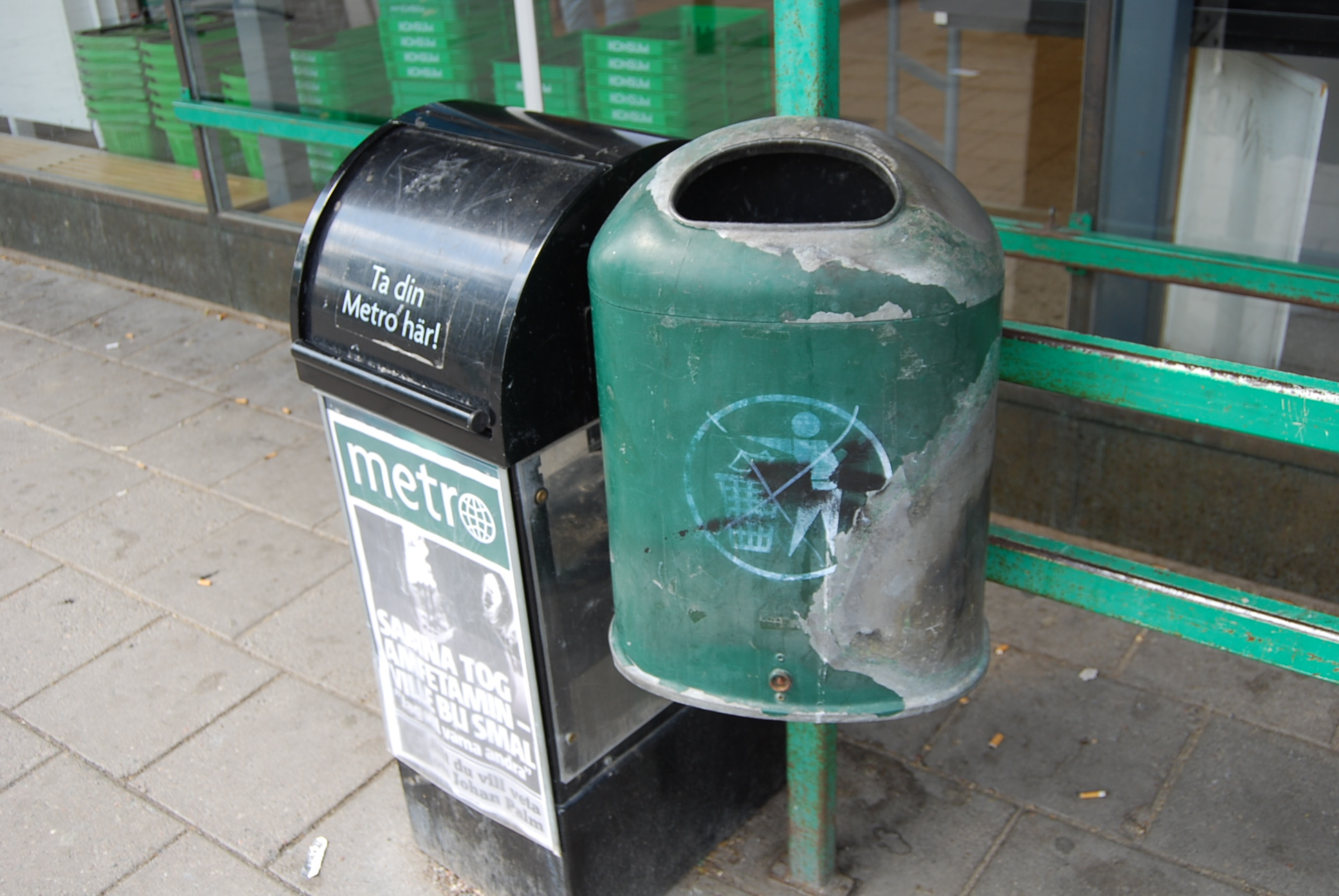 A box with Metro newspapers in Torshälla, Sweden.